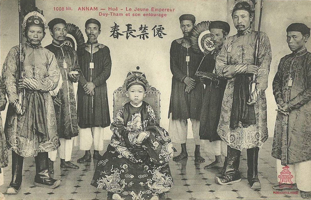 1008 bis ANNAM — Hué - young emperor Duy-Tham and his retinue (old postcard). and in chinese script below, "春長禁僊"